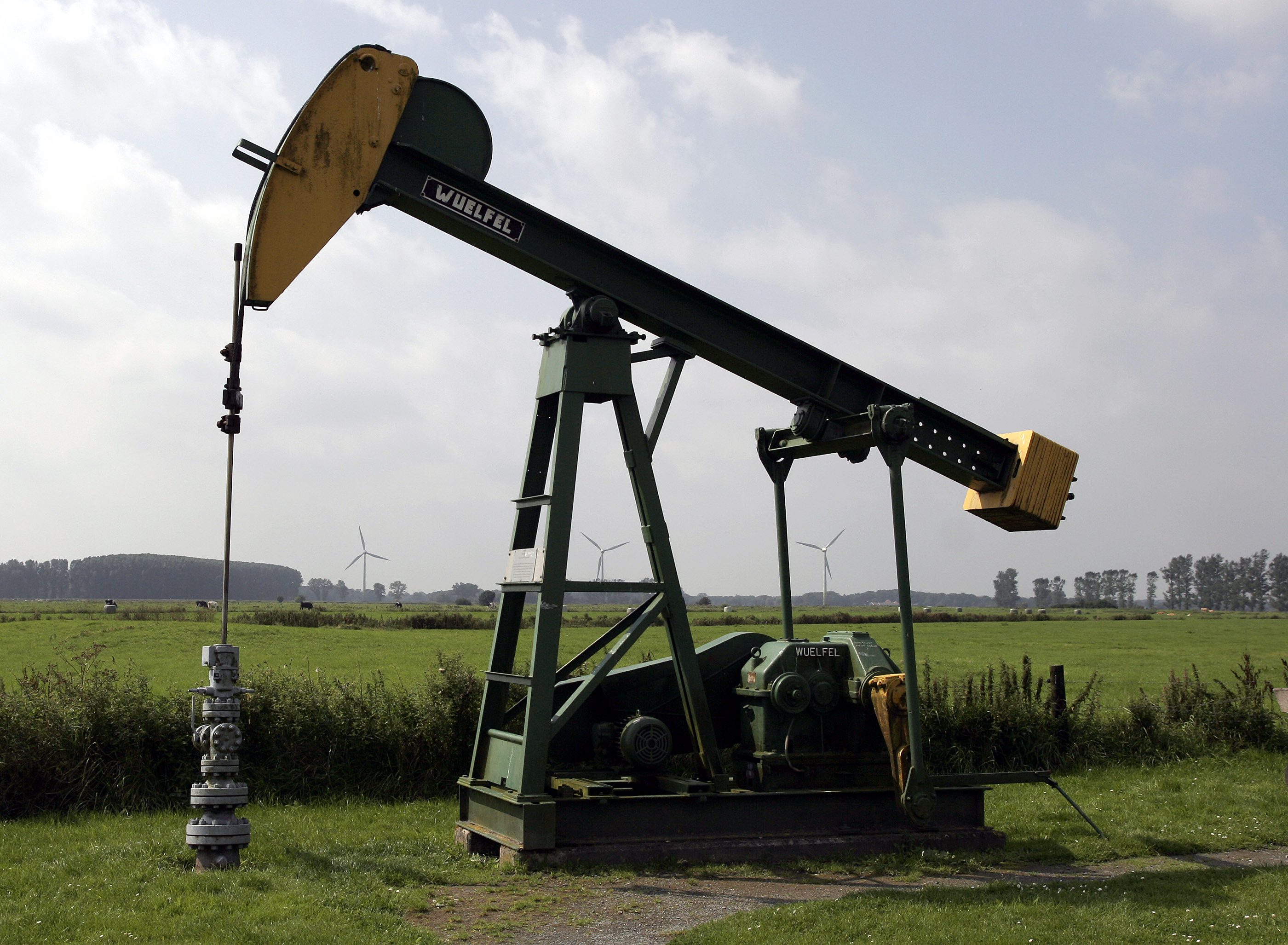 Oil pump at the Oil Field Varel (Germany)